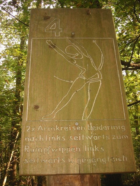 German sign of a fitness trail